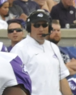 Abilene Christian University head coach Ken Collums during Abilene Christian's away game against Air Force on Sept. 3, 2016.